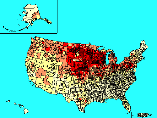 Dispersal of German Americans according to the 2000 census - This map needs a key so the reader understands what the colors mean